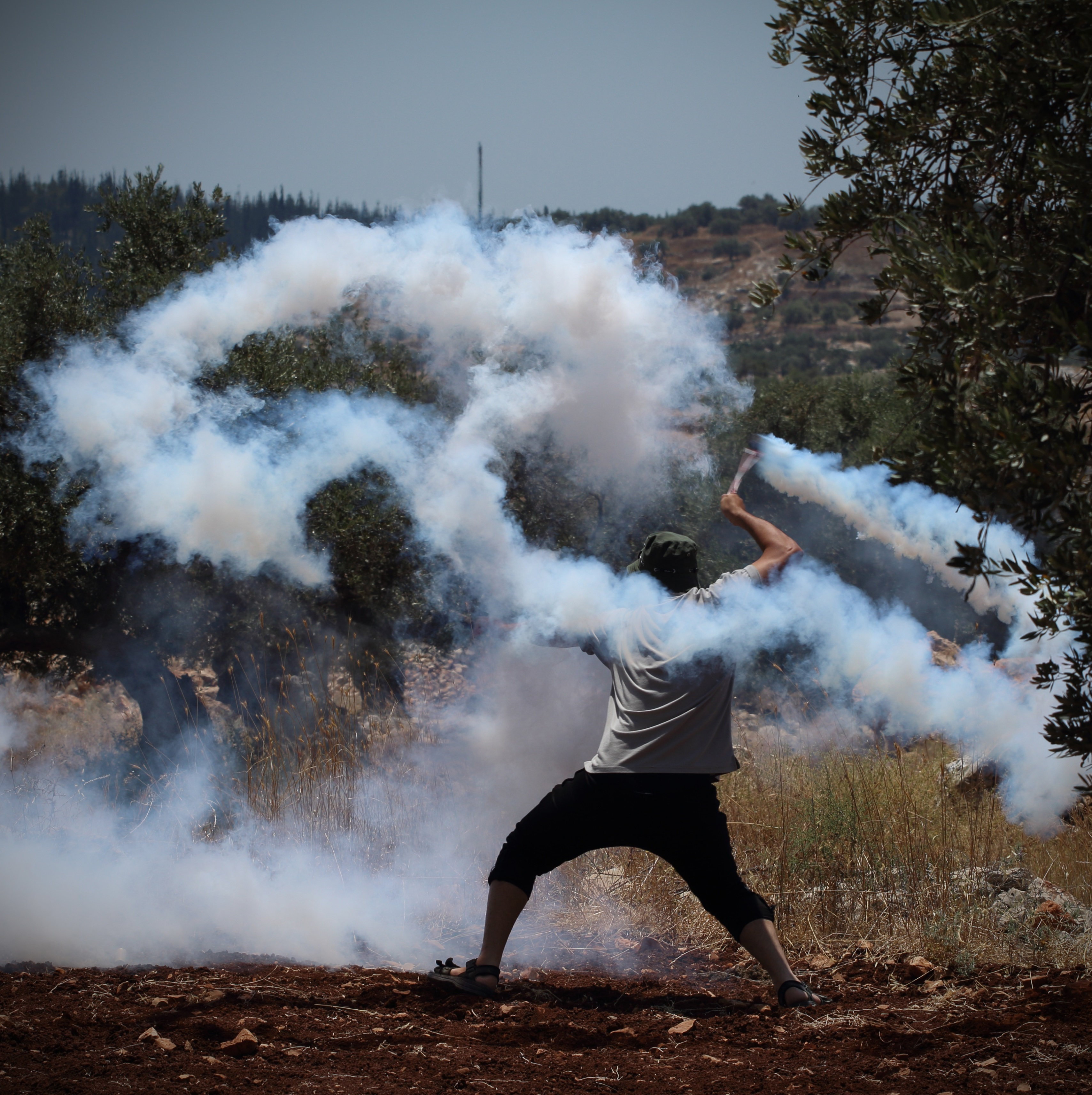 Tear gas grenade returned to soldiers using sling during weekly protest in Ni'lin, July 2014